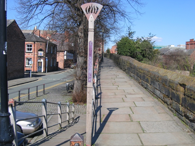 Chester's City Walls - Bridgegate to Eastgate #10 Viewed from where Duke Street, out of sight on the left, meets Park Street, which runs alongside the city walls. At this point there is a flight of steps, and also a ramp that allows access to the walls for wheelchair users. Any wheelchair users who continue along the walls to the Newgate, will have to return to this point to regain pavement level.